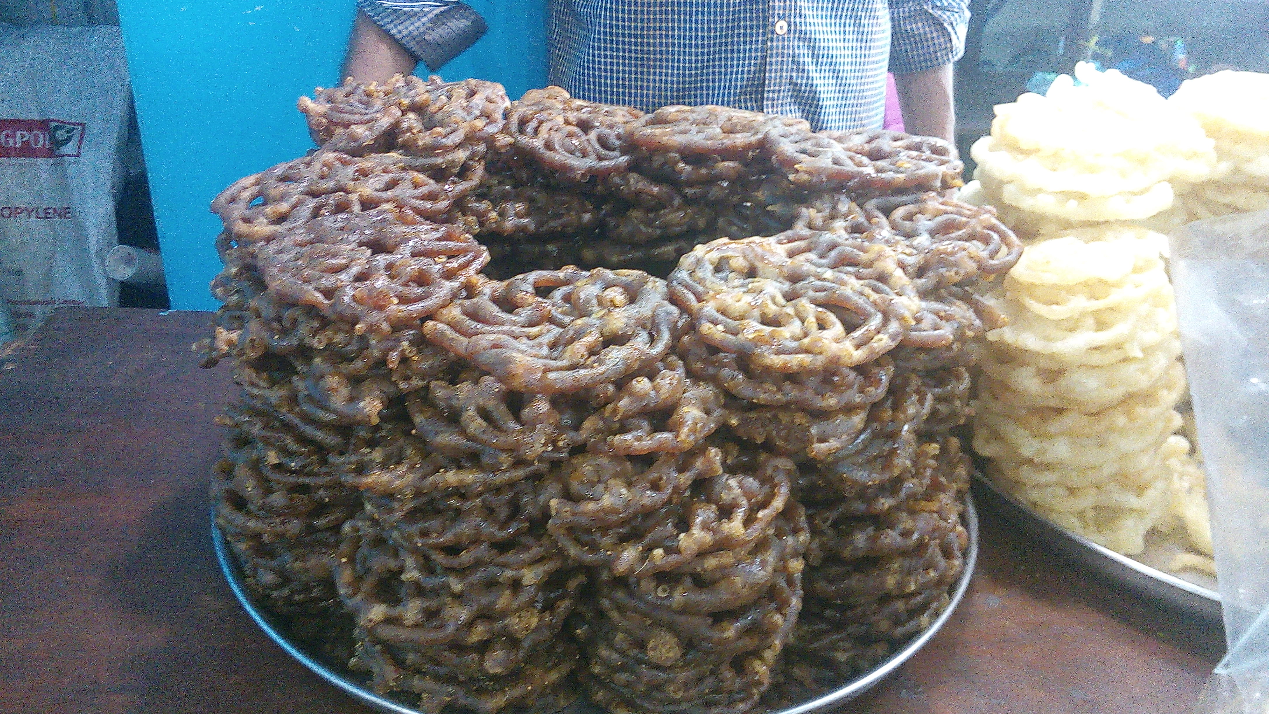 Tamilnadu Sweet. siranimittai.